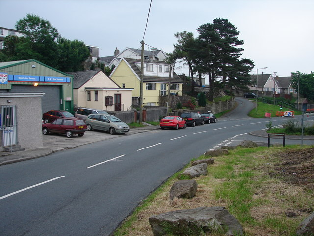 Penprysg Village View Featuring S & T Tyre Services premises and the Zion Pentecostal Church.